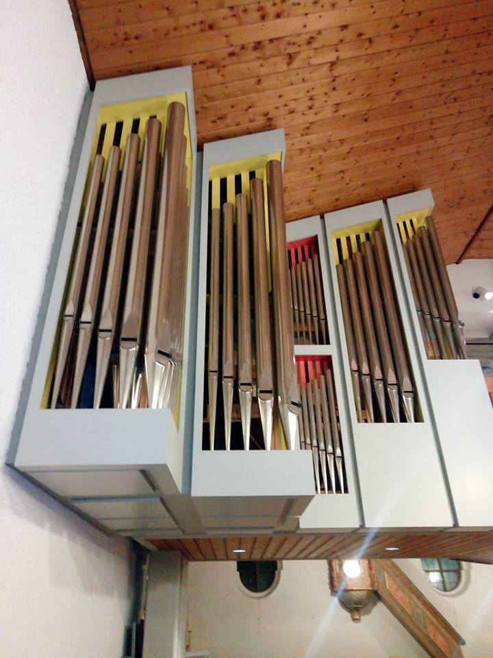 Organ façade parish church Saint Mary of the Immaculate Conception Aalen-Ebnat, Germany